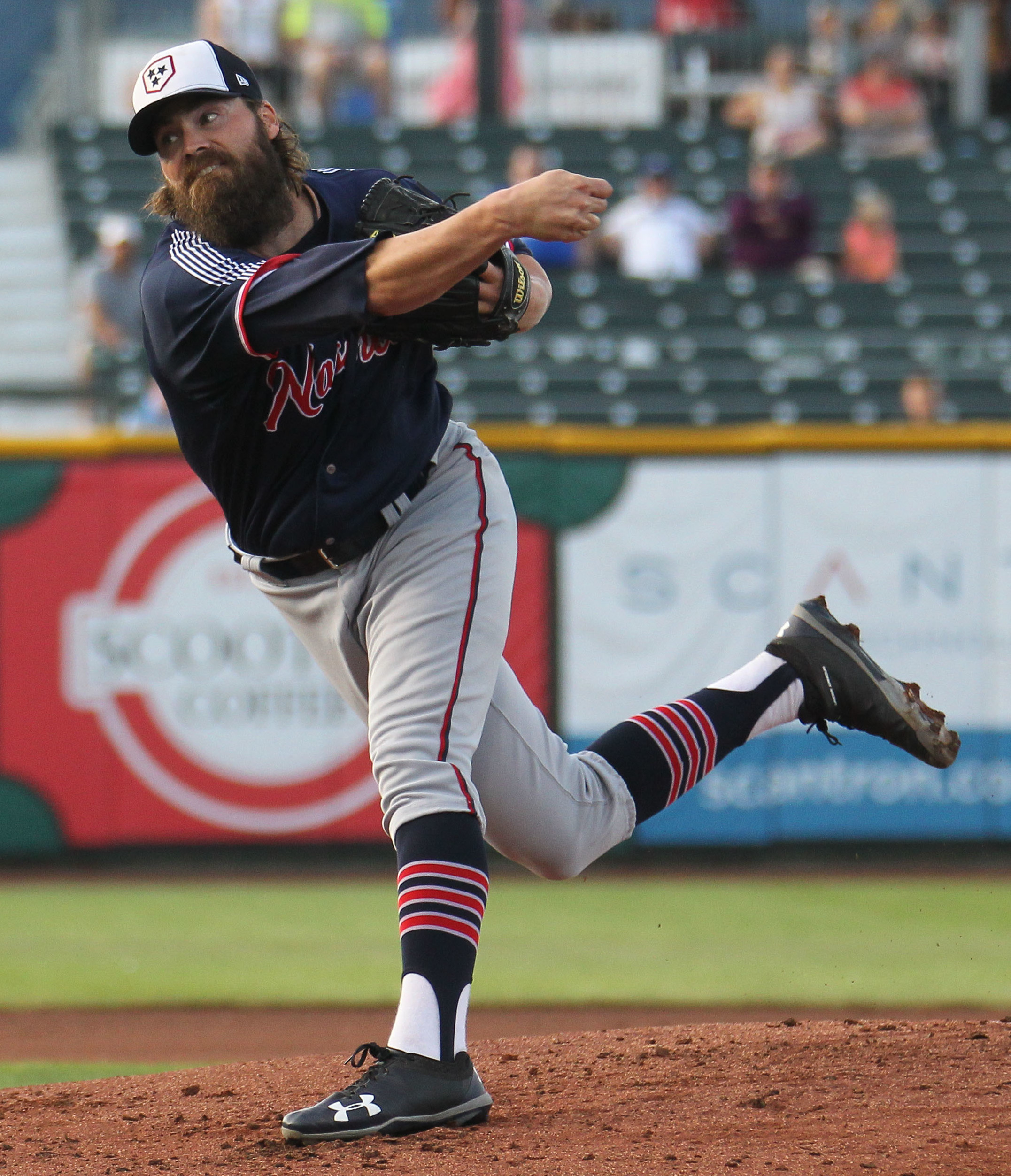 Tim Dillard delivers a pitch for the Nashville Sounds during a 2019 game at Werner Park in Nebraska